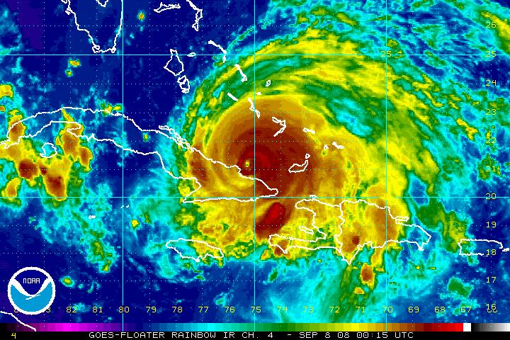 Hurricane Ike in Infrared Imagery